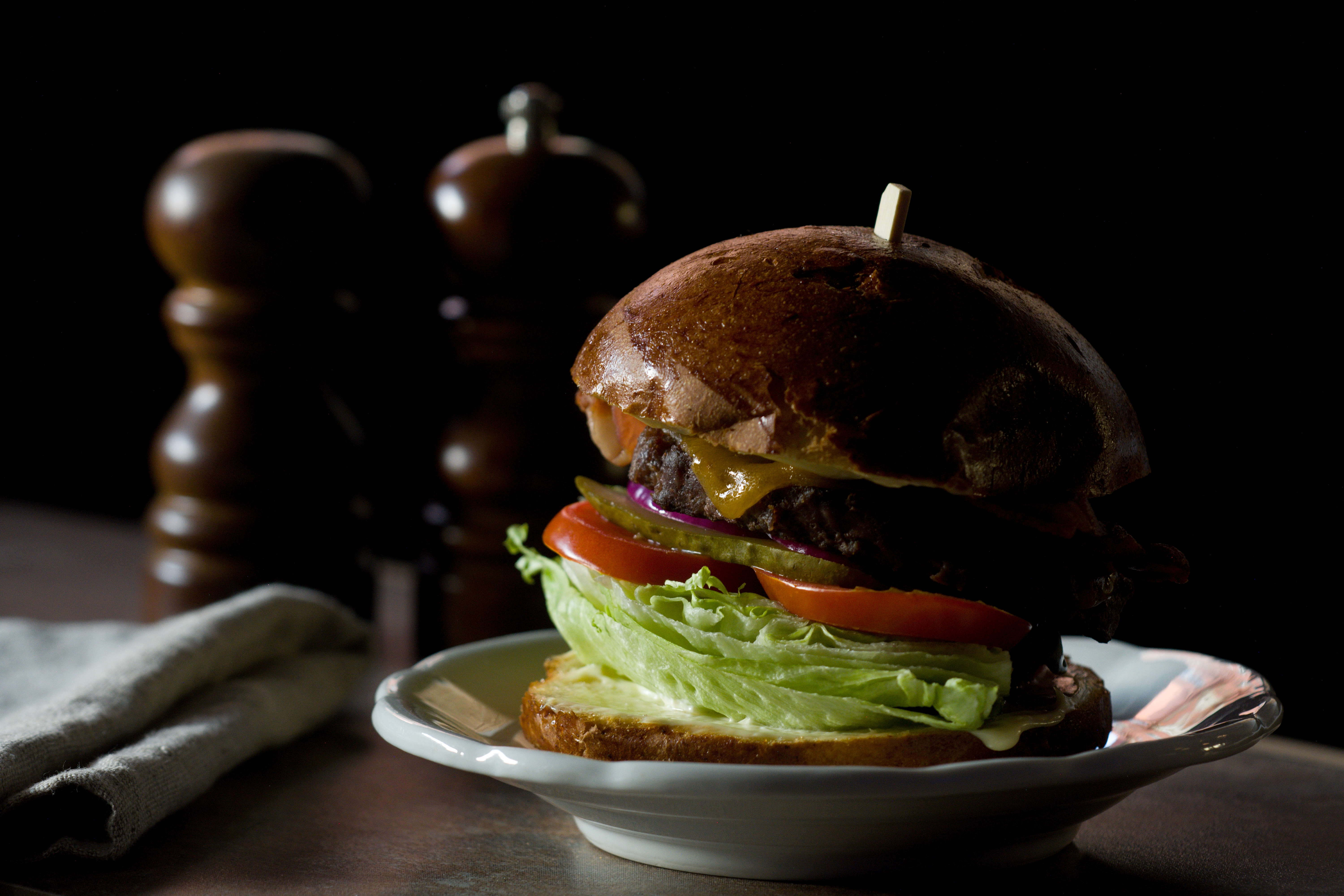 Beef hamburger